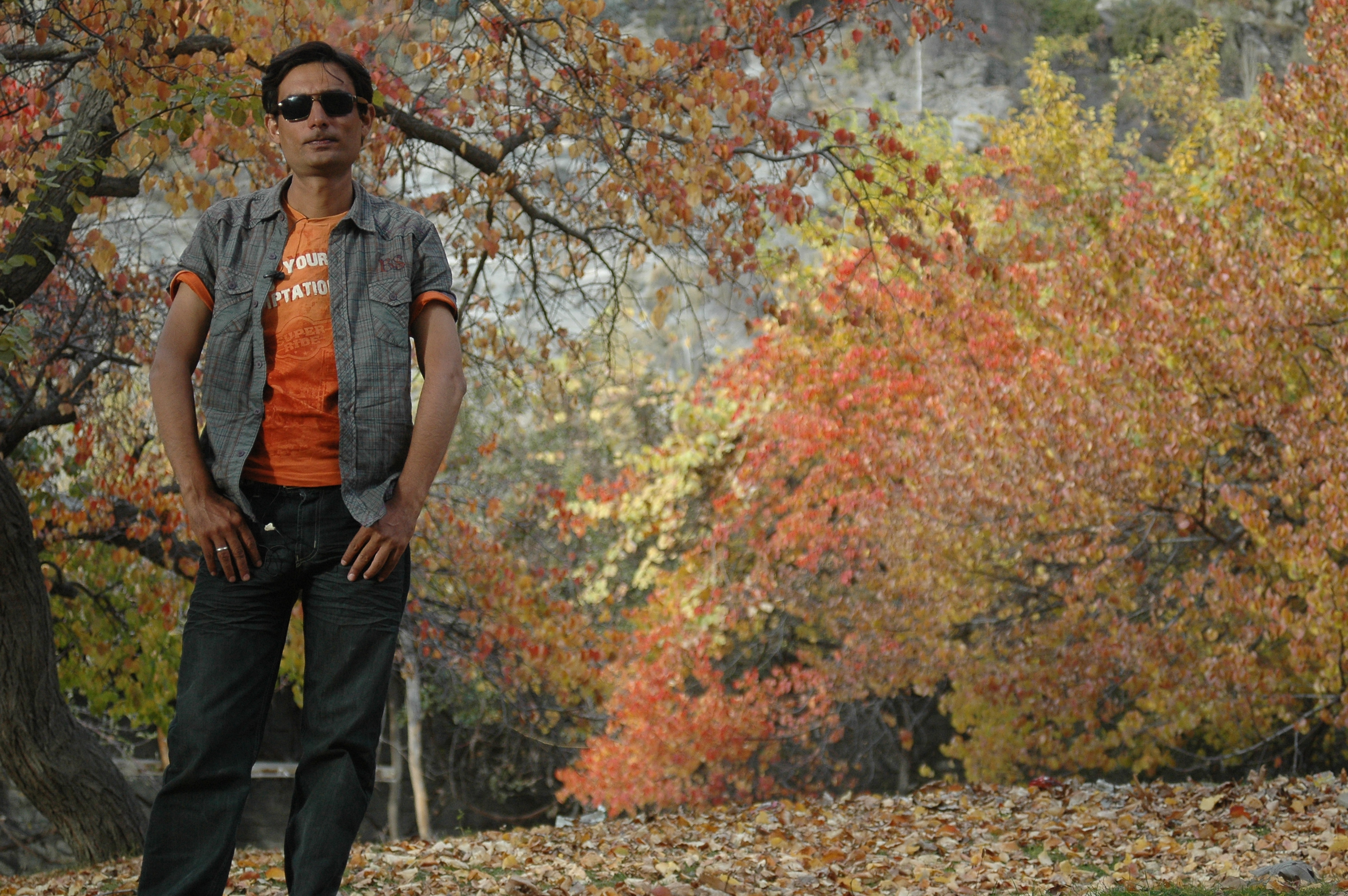 Host & Producer Safar Hai Shart, Waqar Ahmed Malik. Photo taken by me